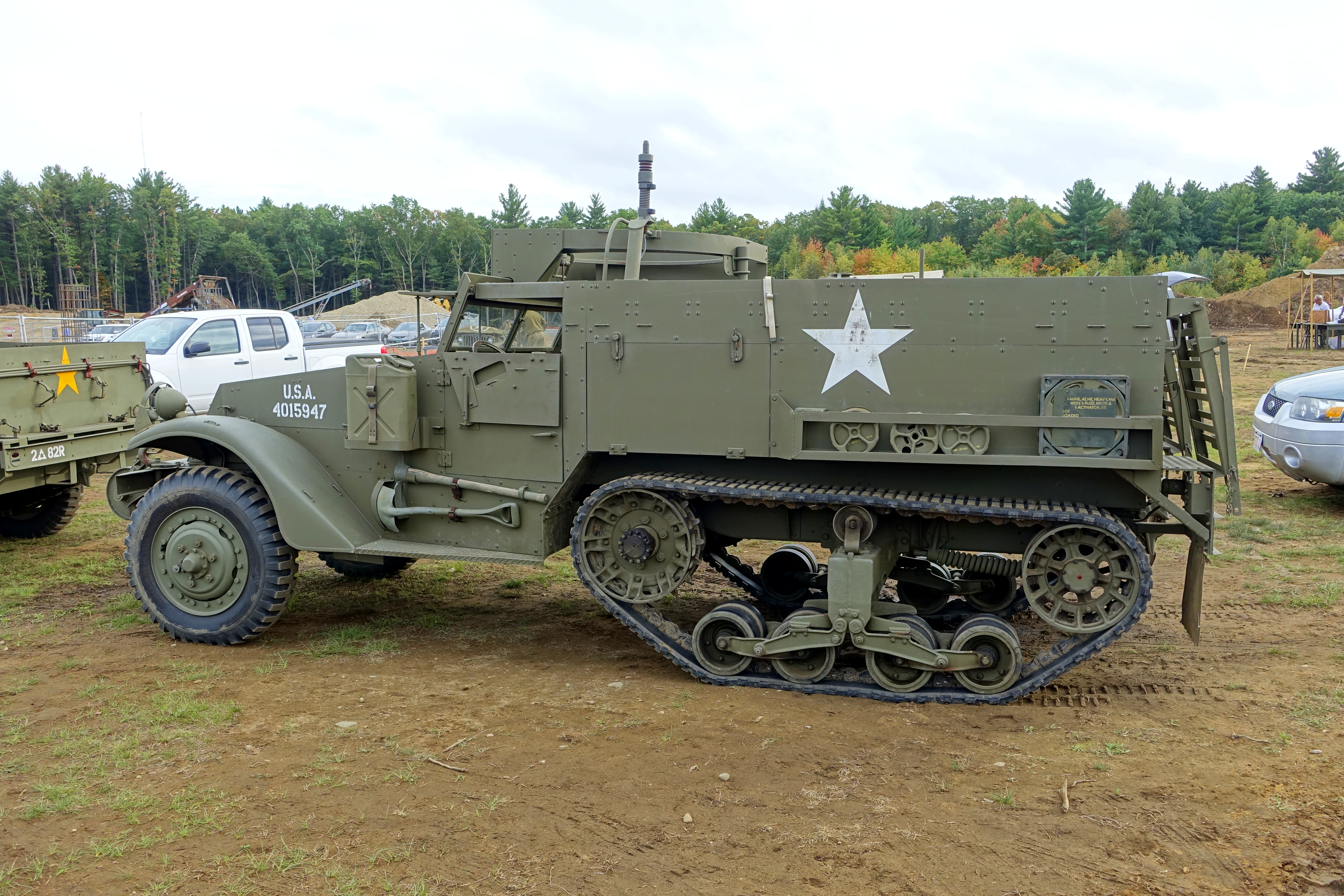 Exhibit in the Collings Foundation - Stow / Hudson, Massachusetts, USA.